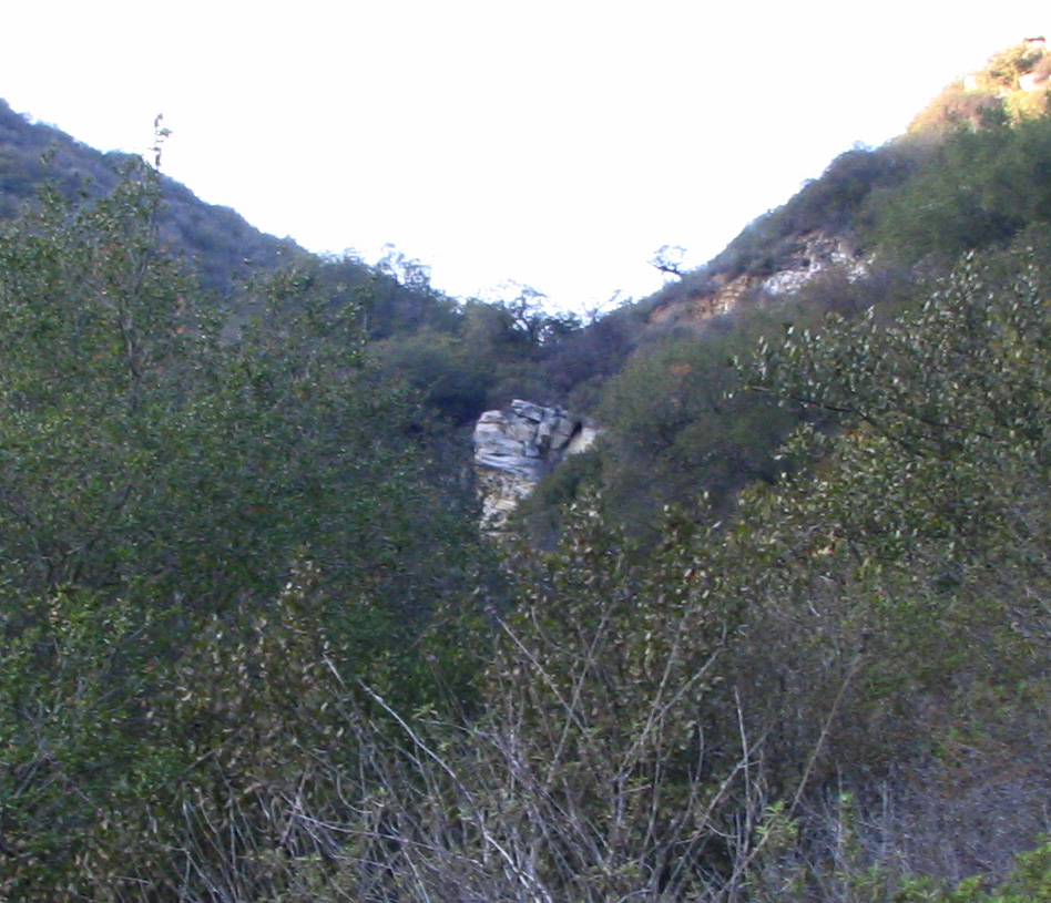 Waterfall in Laurel Canyon, Laguna Canyon, CA.